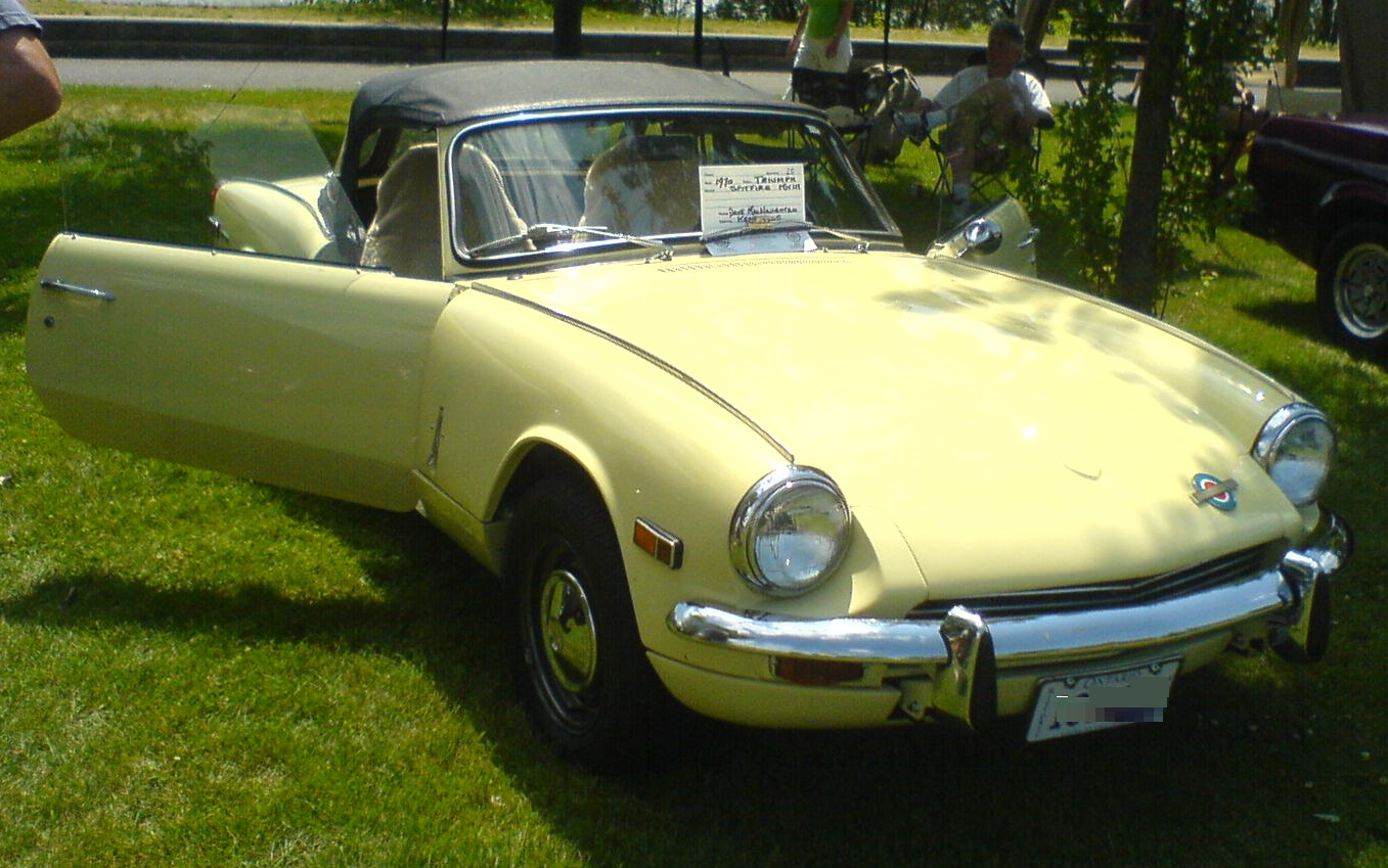 1970 Triumph Spitfire photographed in Ottawa, Ontario, Canada at the 2010 Ottawa British Auto Show.